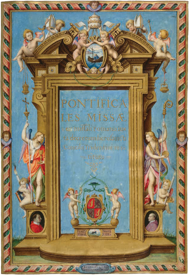 Frontispiece, illumination by Estêvão Gonçalves Neto dated 1616, of the Missal of the Academy of Sciences, Lisbon, Portugal.